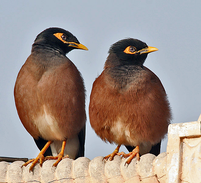 Common Myna Acridotheres tristis at/ near Hodal in Faridabad District of Haryana, India.